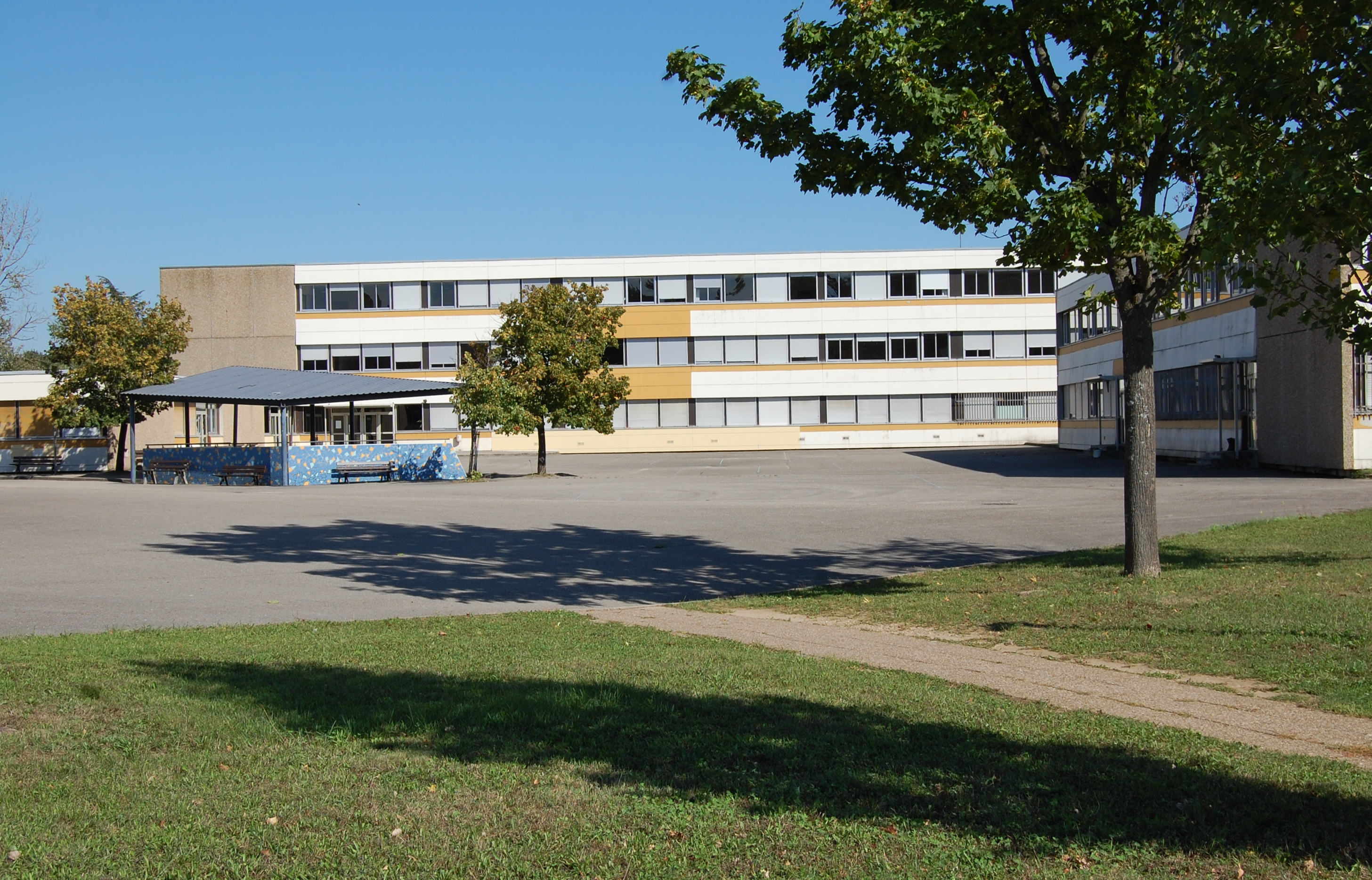 Back of Chaplin-Becquerel high school, in Décines-Charpieu, France.